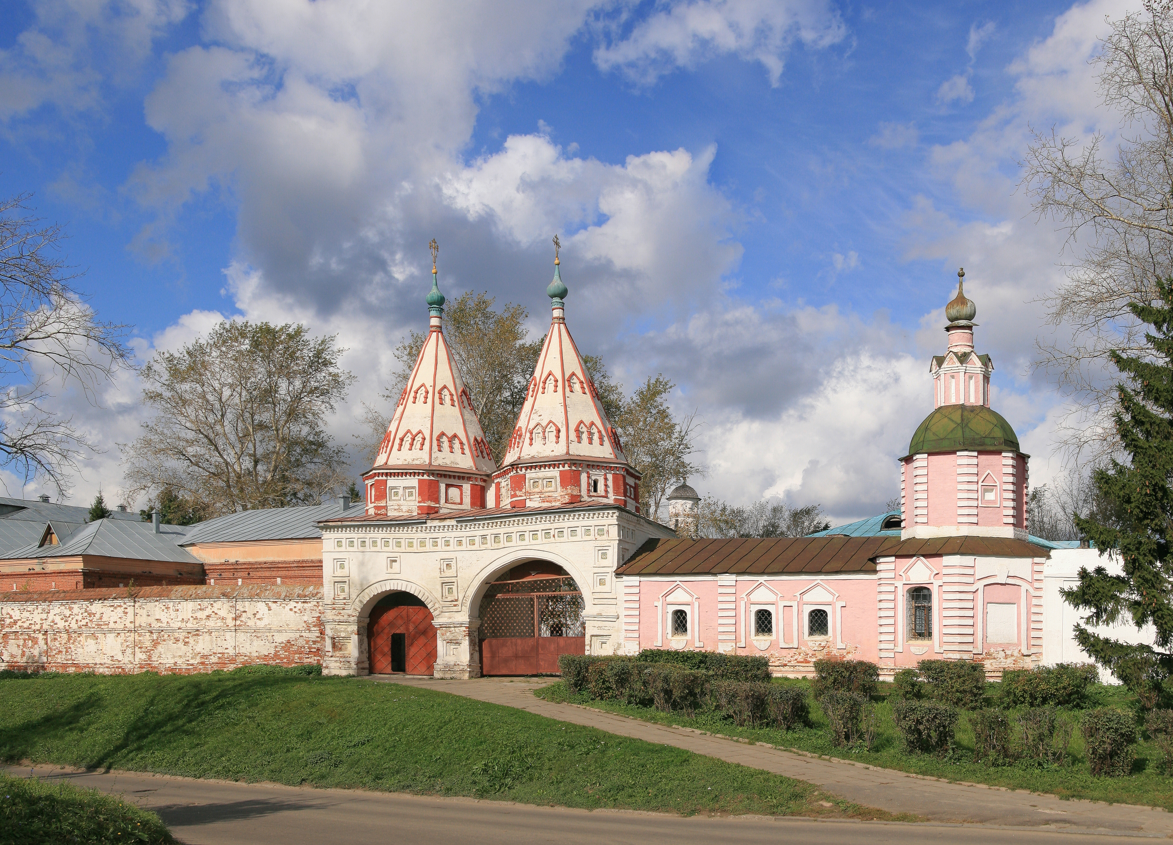 The Holy Gate of the Rizopolozhensky Monastery, Suzdal, 1688